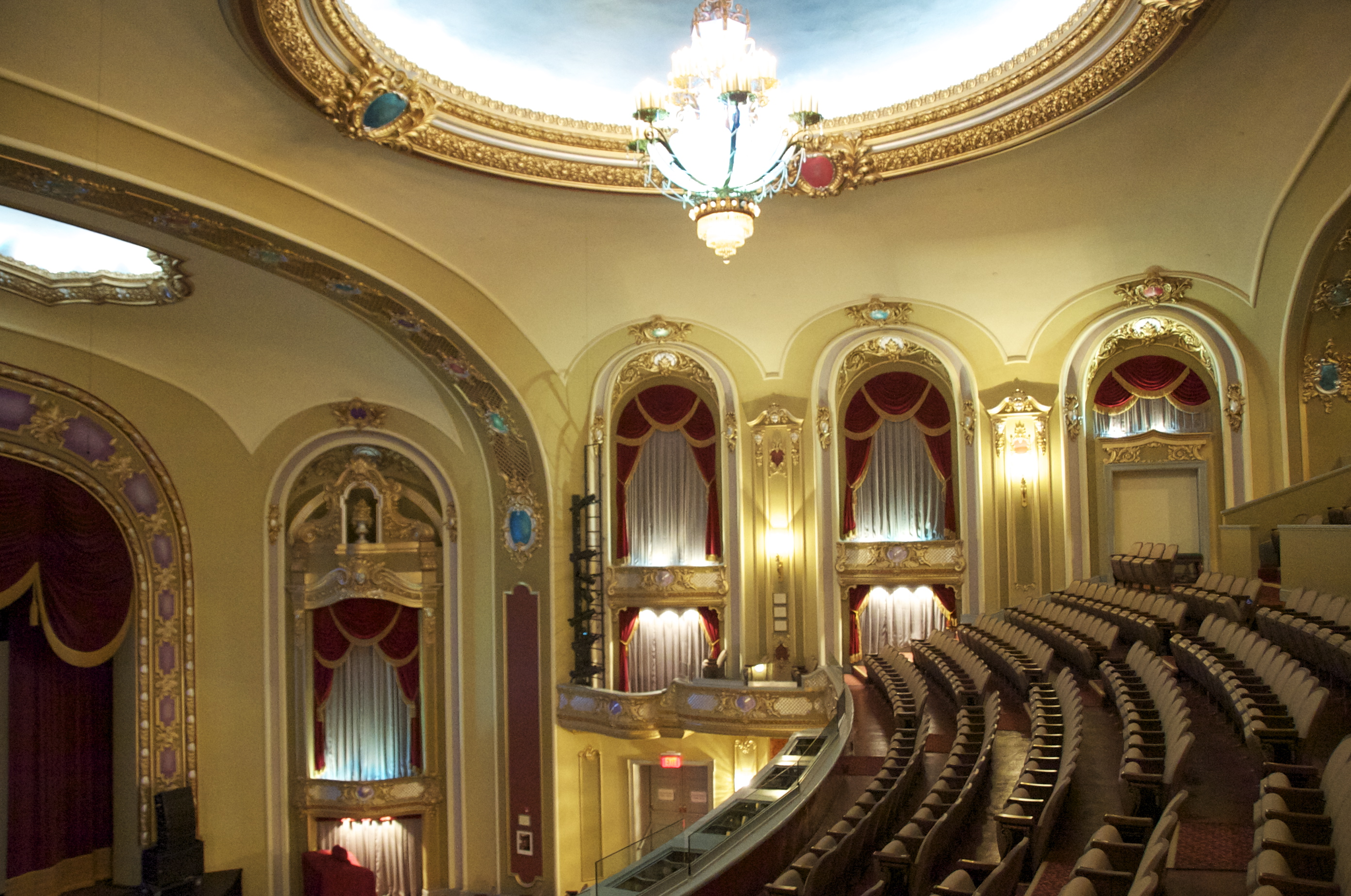 This picture shows the balcony seating area and chandelier of Missouri Theatre